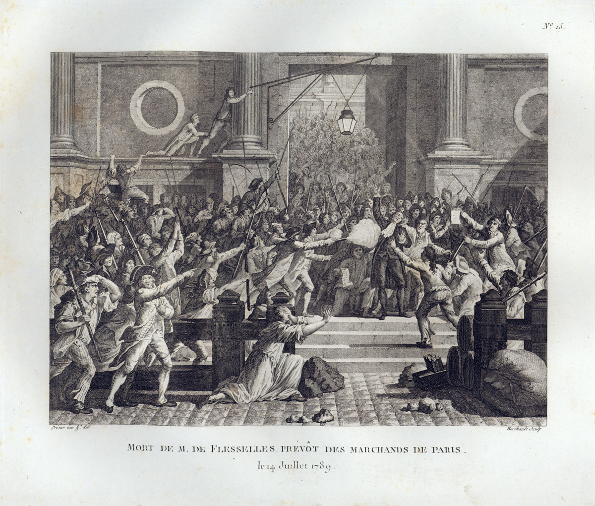 Death of de Flesselles, mayor of Paris, portrayed by Pierre-Gabriel Berthault (after Jean-Louis Prieur)